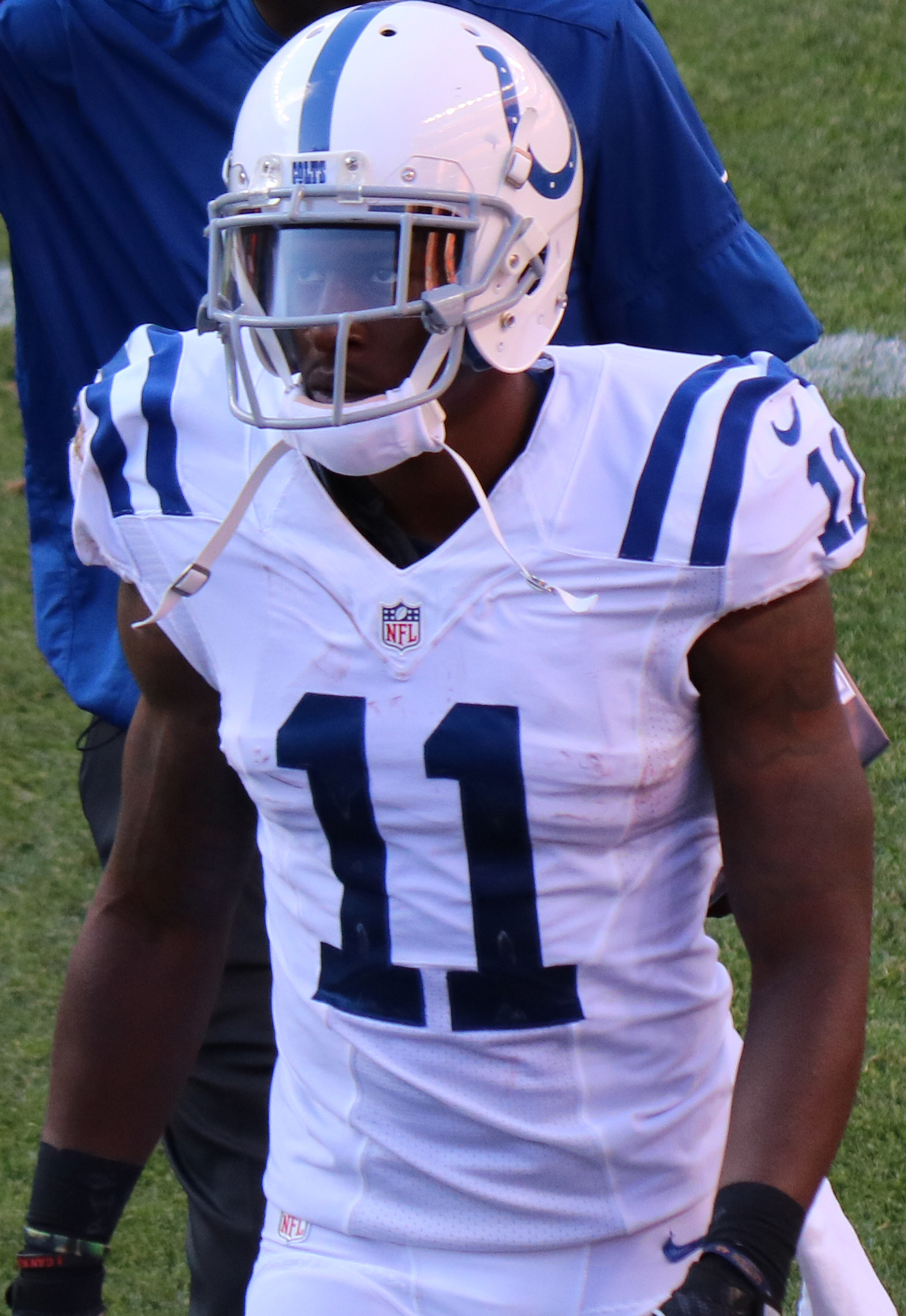 Quan Bray, a player on the National Football League.